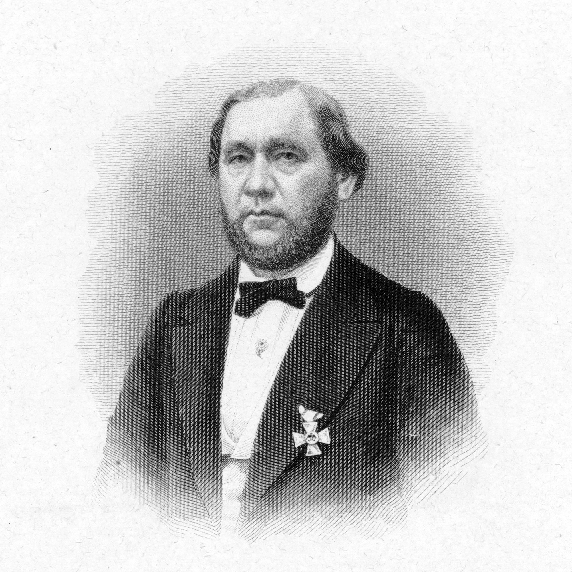 German conductor Benjamin Bilse (1816—1902)